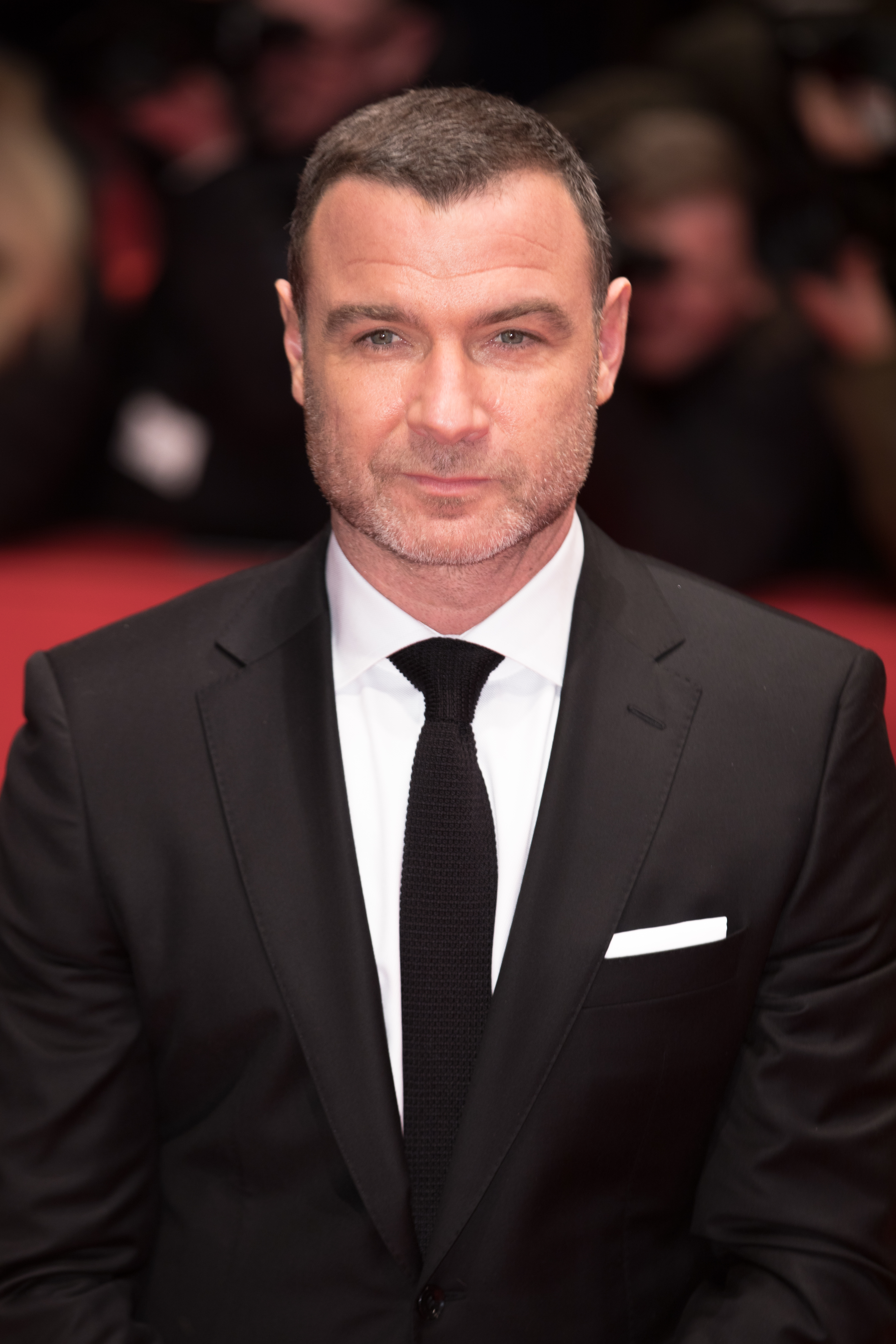 Liev Schreiber at the opening ceremenony of the Berlinale 2018